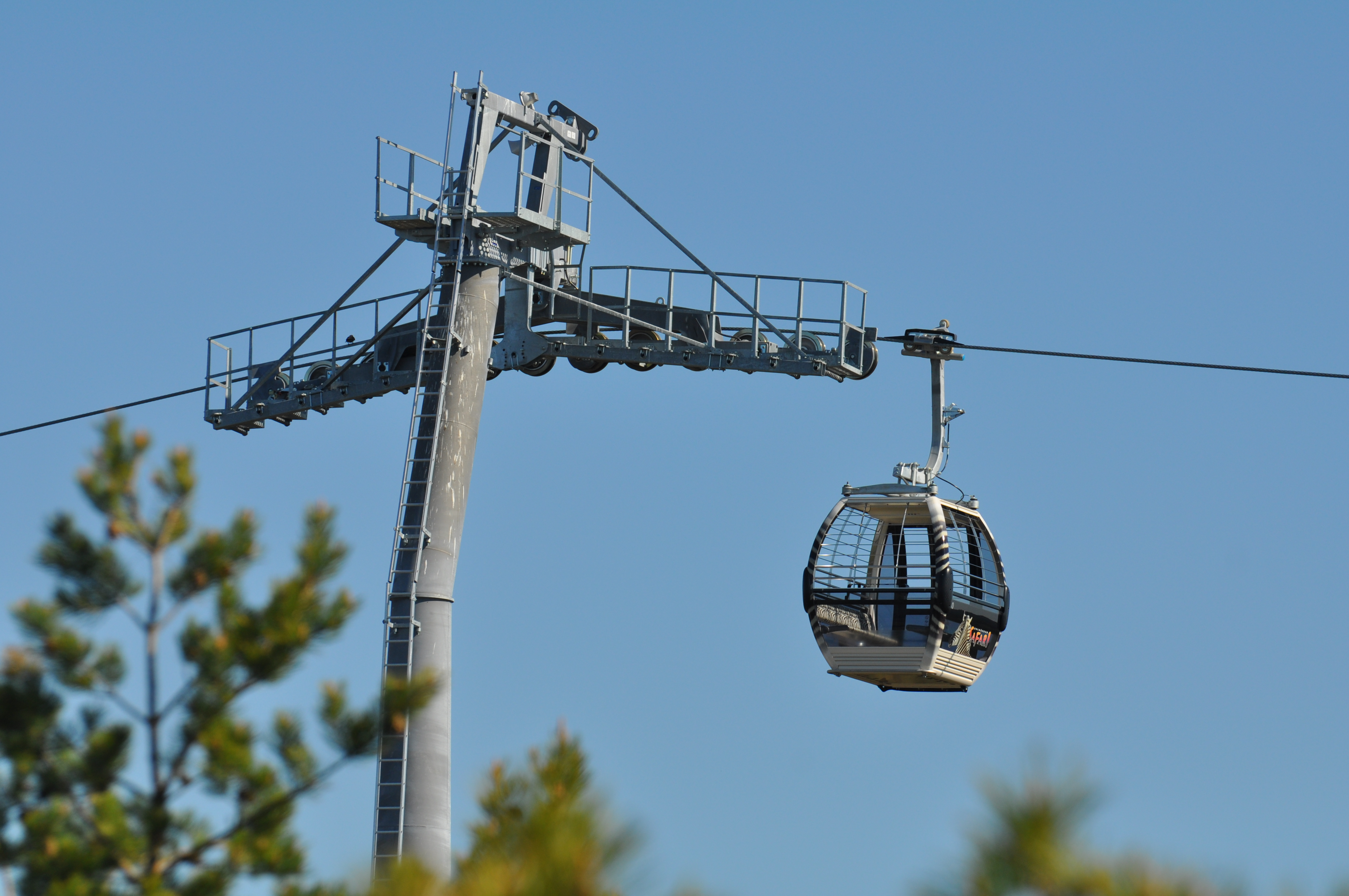 Kolmården Safari Cableway